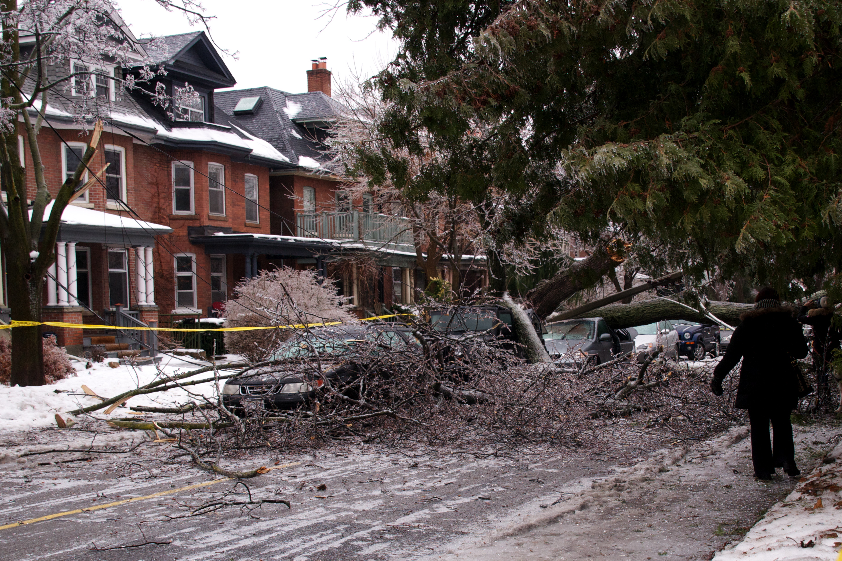 Fallen tree destroying two vehicles and cutting the power to parts of the Annex - Kendal Avenue, Ice Storm 2013